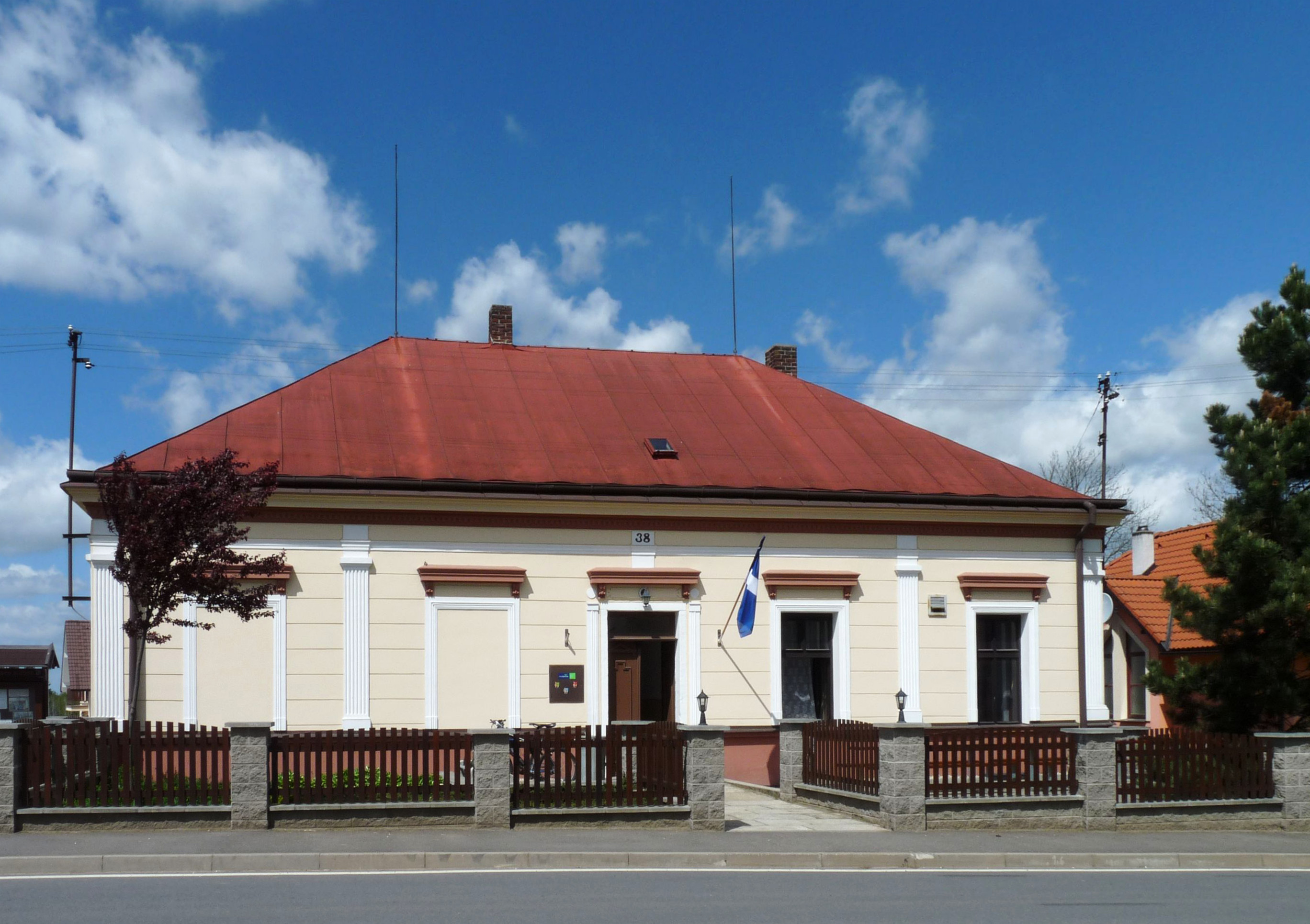 House No 38 in the village of Modlíkov, Havlíčkův Brod District, Vysočina Region, Czech Republic.